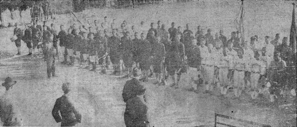 Baseball at the 1922 Korean National Sports Festival.